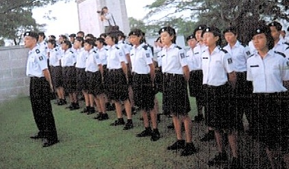 Cadets of the St. John Ambulance Brigade of Singapore on parade at the Kranji War Memorial on Remembrance Day (11 November) 2003.